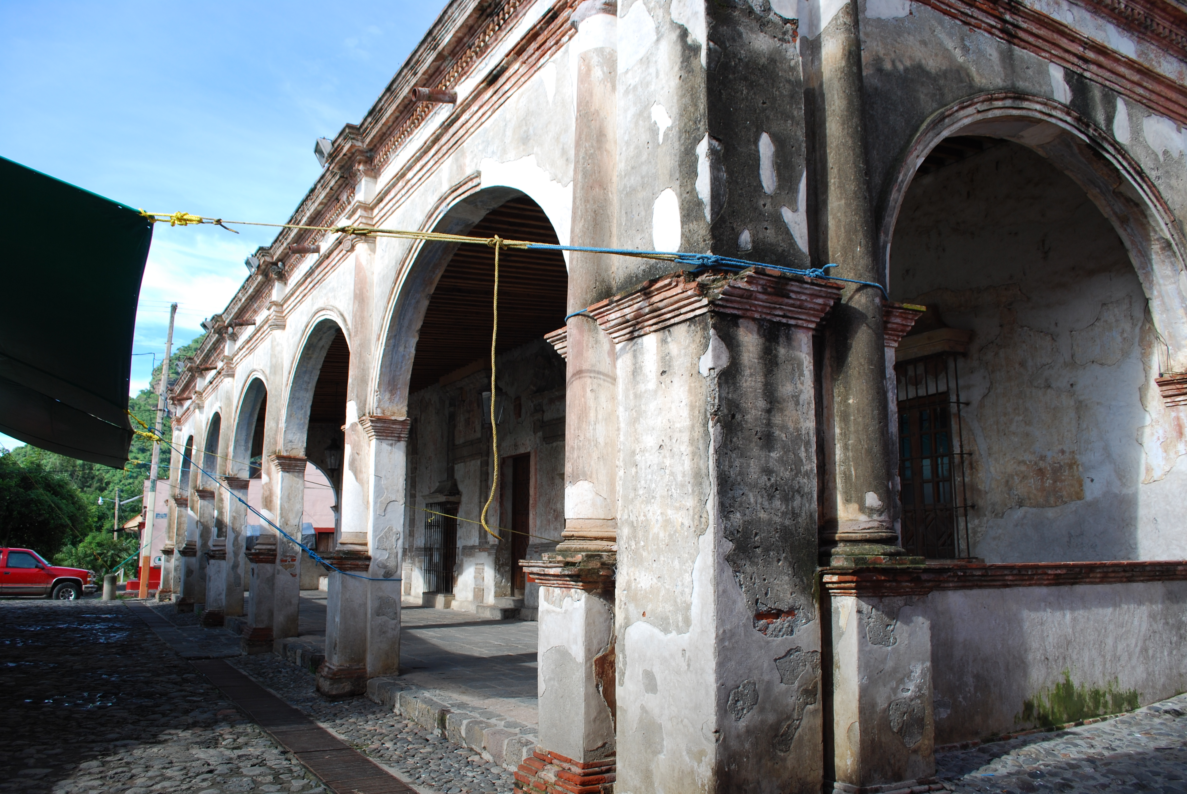 Facade of the La Cereria Museum in Tlayacapan, Morelos, Mexico